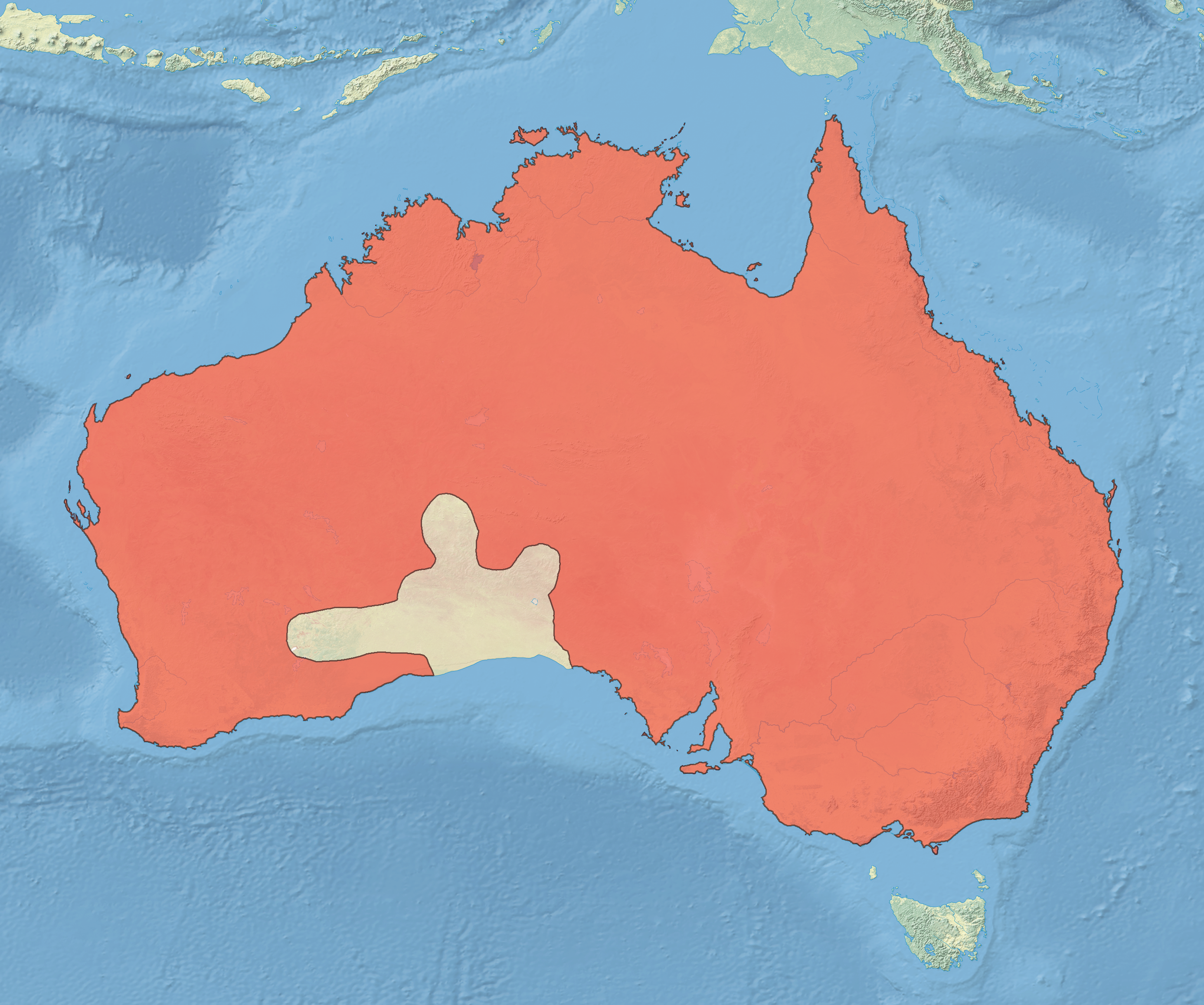 Distribution map of Hieraaetus morphoides ssp. morphnoides (Little Eagle). Distribution data from BirdLife International 2009. Hieraaetus morphnoides. In: IUCN 2011. IUCN Red List of Threatened Species. Version 2011.2. . Downloaded on 11 February 2012. Map from Natural Earth